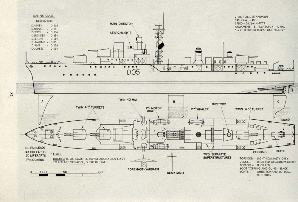 The picture shows a line drawing of the UK Daring-class destroyer, first laid down in 1945.